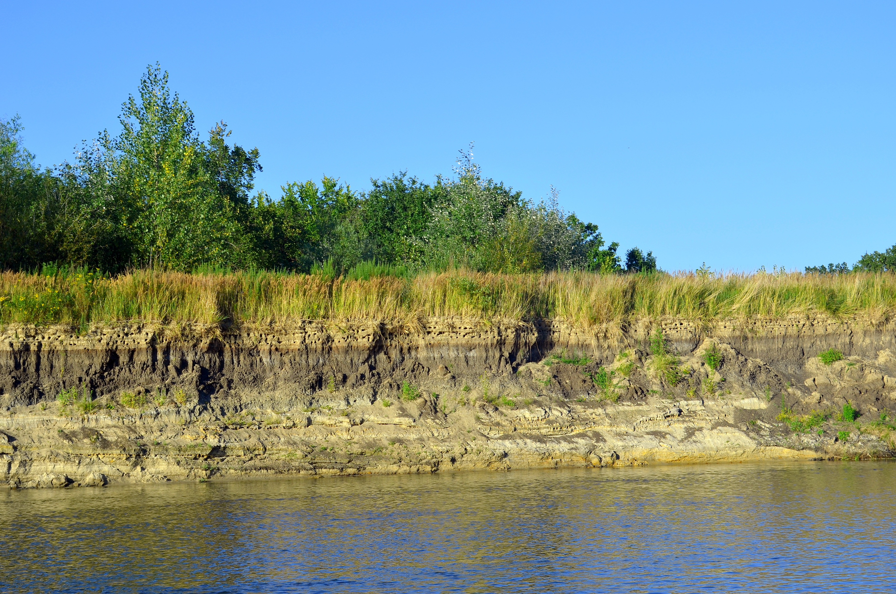 Khopersky reserve: The reserve is located in the southeastern part of the Oka-Don lowland on the banks of the Khoper River, on the territory of the Novokhopersky, Povorinsky and Gribanovsky districts of the Voronezh Region, Novokhopersky District, Voronezh Region This image is related to the protected area of Russia number 3600098